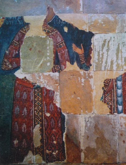 A fresco of the royal person from the Nabakhtevi monastery in Georgia. An inscription in the Georgian asomtavruli script identifies him as "Alexander, King of Kings", i.e., Alexander I of Georgia